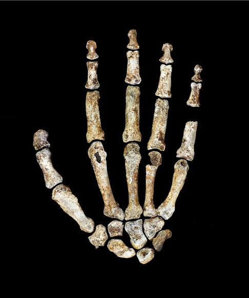 Bones of the right hand of Homo naledi.